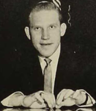 Photograph of Don Dohoney